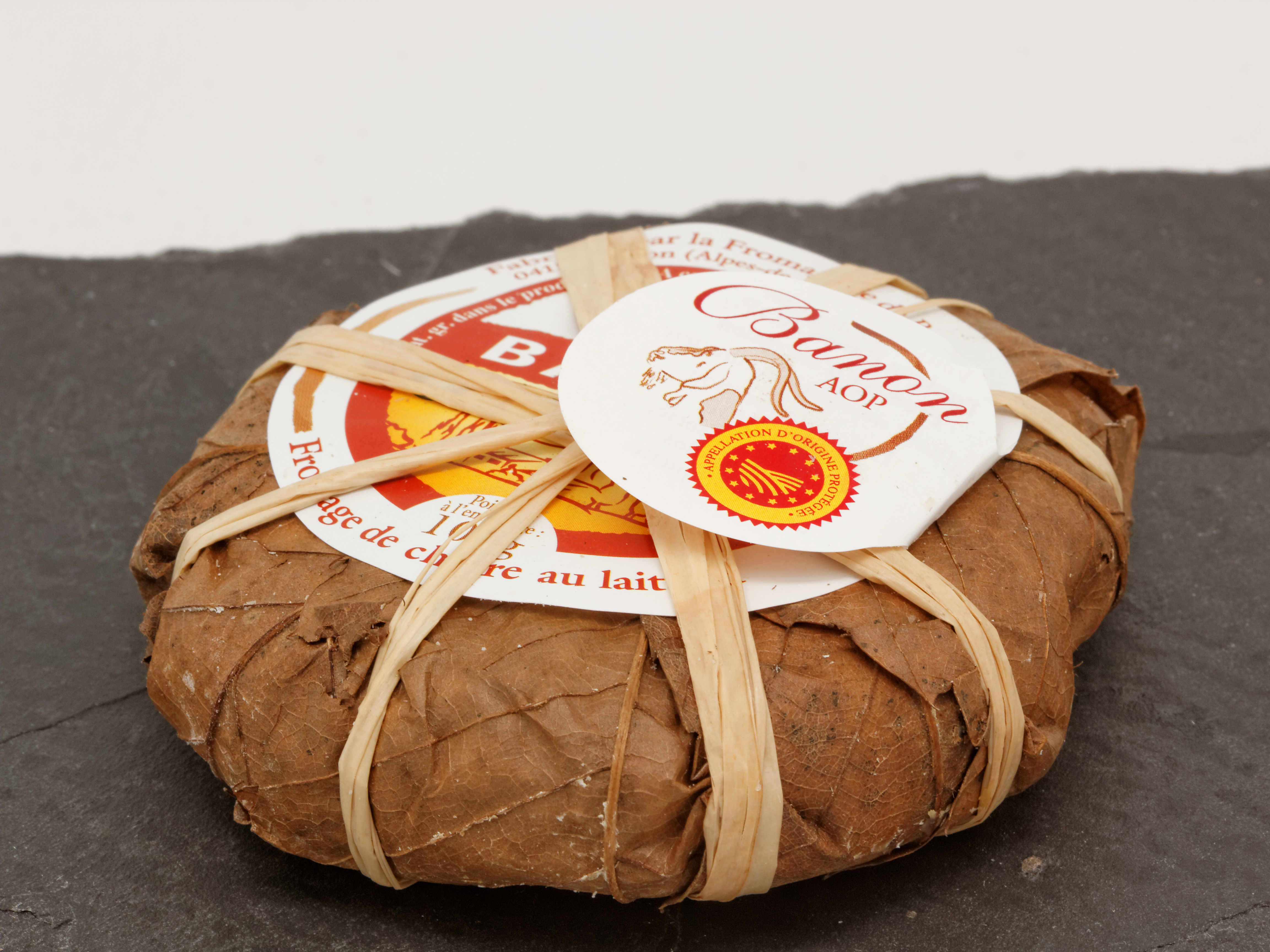 Banon (sheep's-milk cheese)